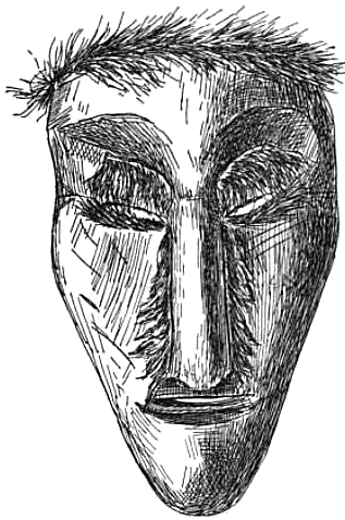 Cherokee ceremonial dance mask made of wood. 35 cm or about 13 3/4" in height.